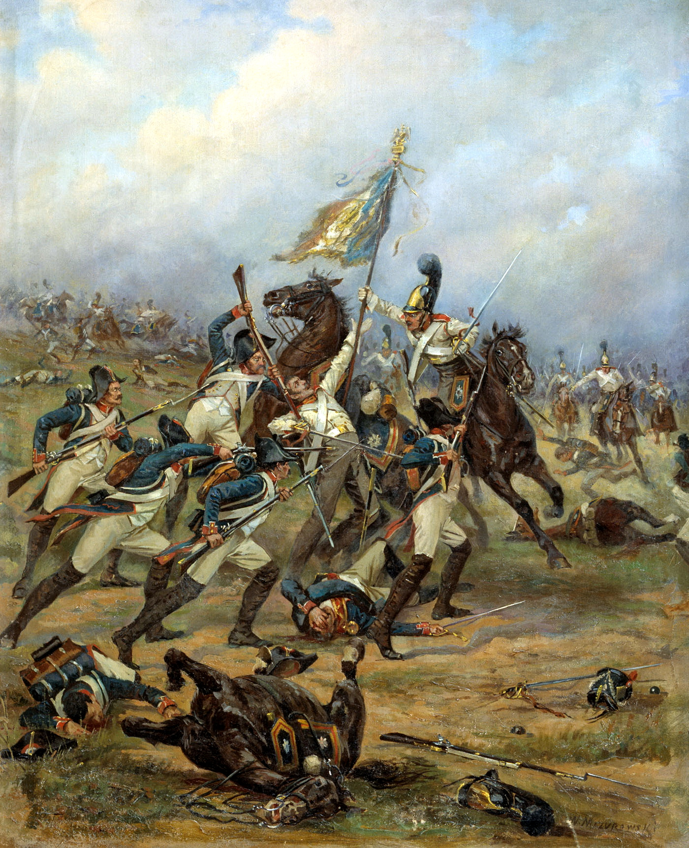 Capture of a French regiment's eagle by the cavalry of the Russian guard at Austerlitz. The French lost only one eagle at the battle of Austerlitz and this happened when the Russian horse Guard caught the 4th Line regiment in the open and charged them.